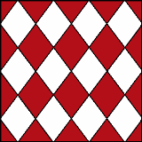 Coat of arms of Stettfurt, Canton of Thurgau, SwitzerlandEsperanto: Blazono de Stettfurt, Kantono Turgovio, Svislando